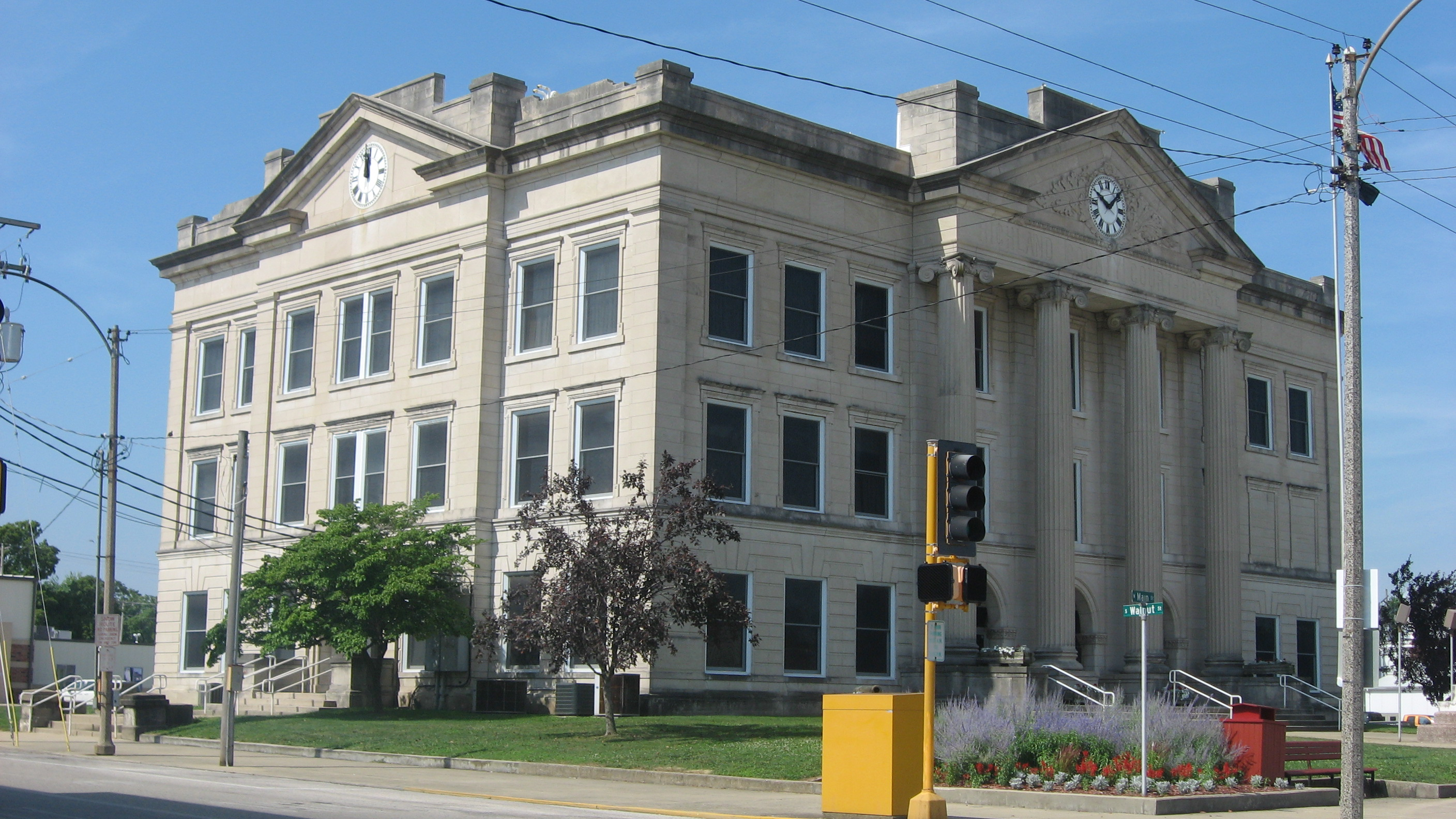 Front of the Richland County Courthouse, located at 103 W. Main Street in Olney, Illinois, United States. It was built in 1915.